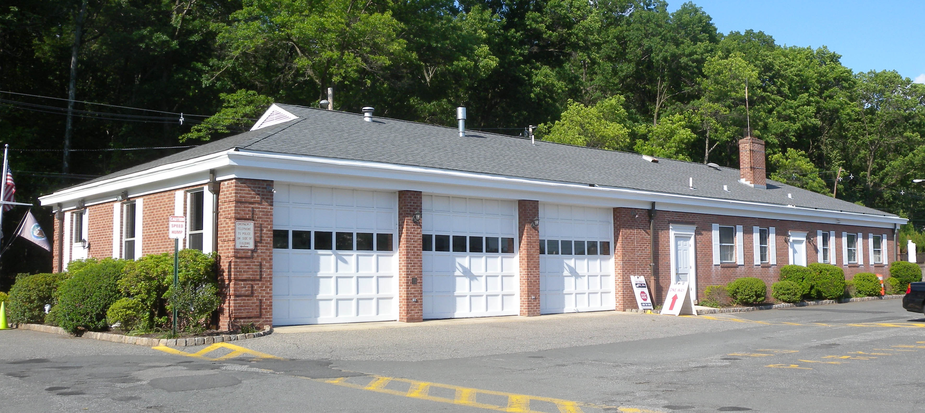 Looking northeast at Millburn-Short Hills Volunteer First Aid Squad quarters on a mostly sunny afternoon.